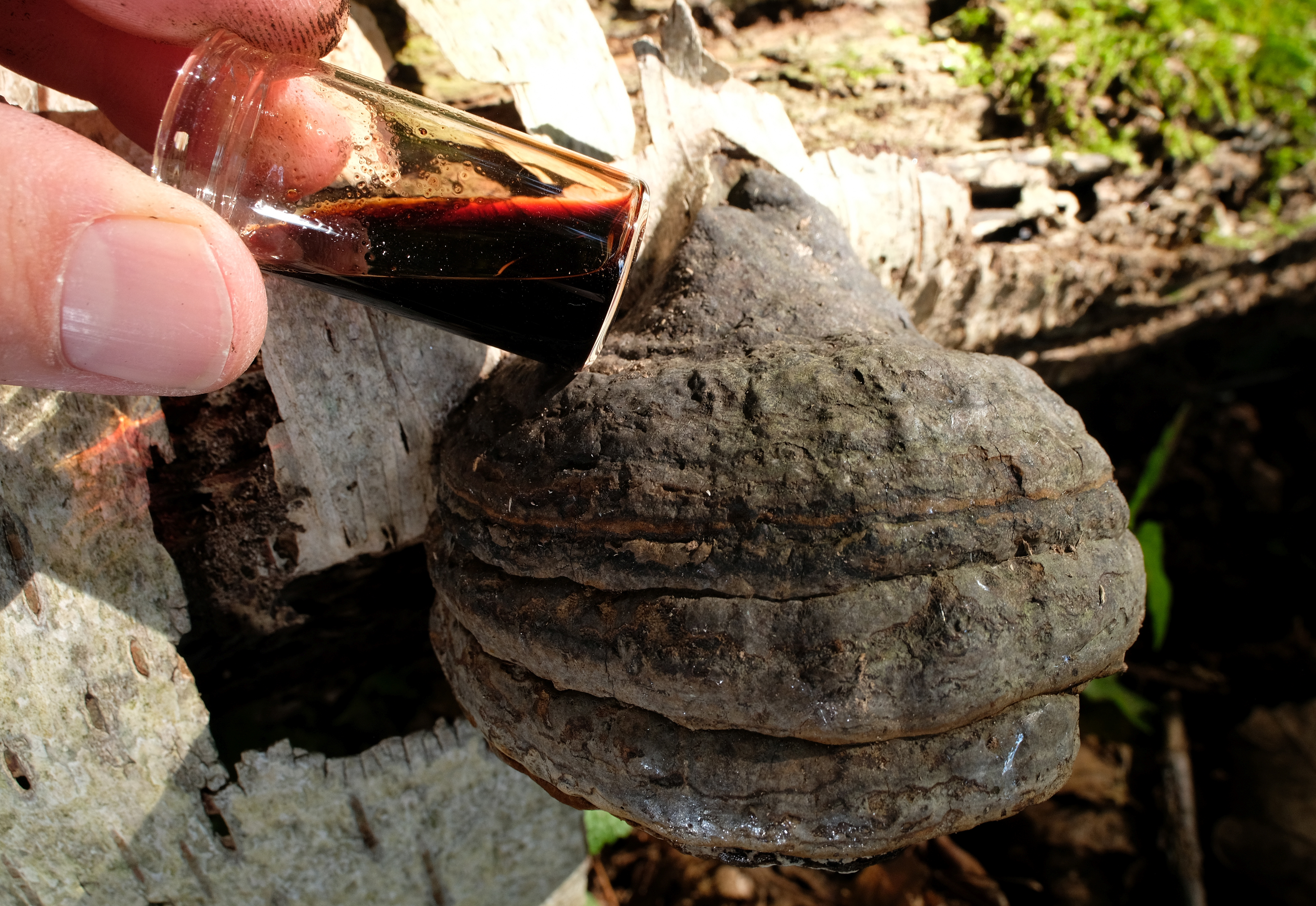 The photo shows the characteristic blood red color upon adding diluted alkali hydroxide to a few small particles scraped off from the crust of the tinder fungus (tinder polypore, fomes fomentarius). The color is due to deprotonation of fomentariol, the main pigment of the crust (Nöel Arpin, Jean Favre-Bonvin, Wolfgang Steglich, Le fomentariol: Nouvelle benzotropolone isolée de Fomes fomentarius, Phytochemistry 1974, 13, 1949-1952).